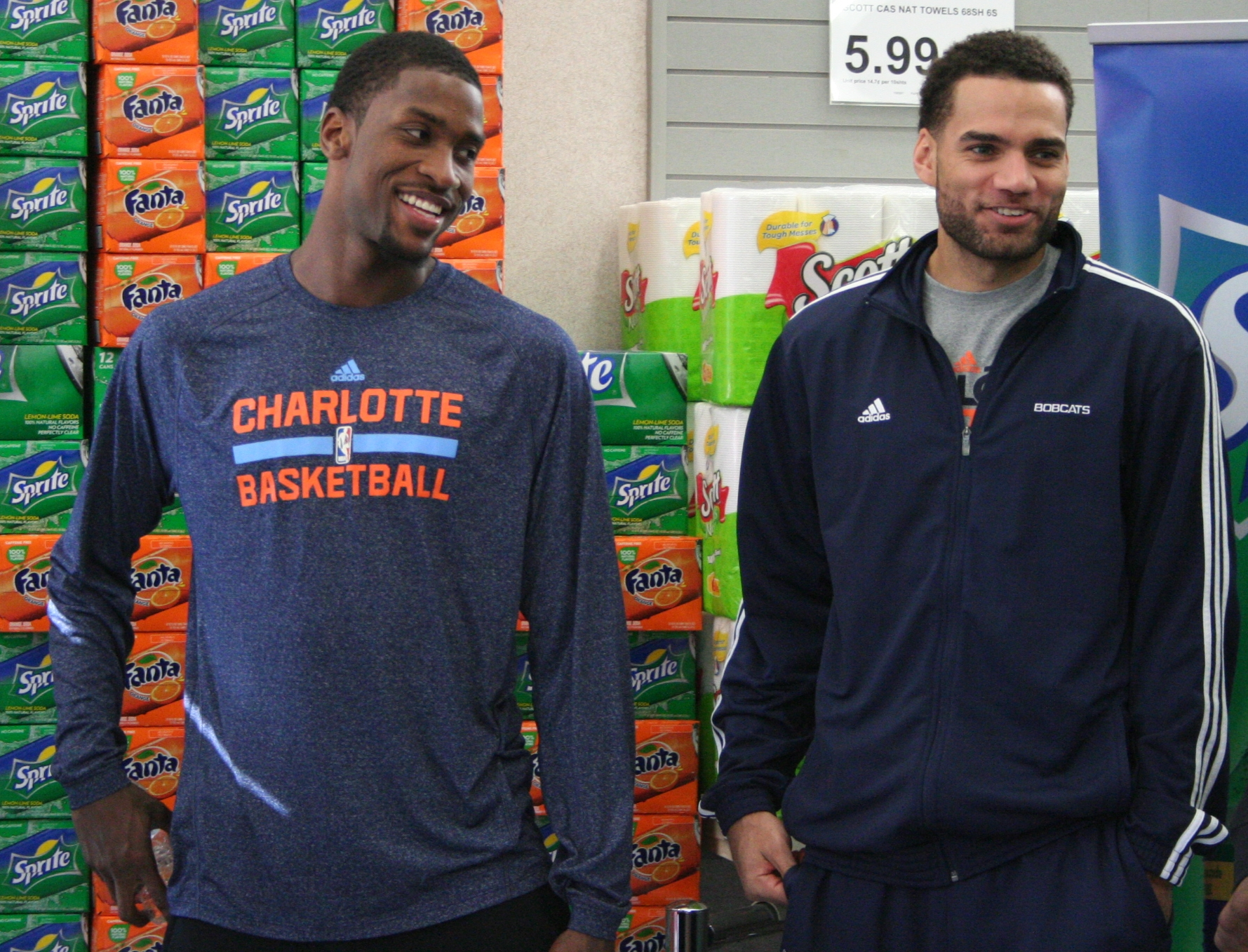 Michael Kidd Gilchrist and Jeffery Taylor of the Charlotte Bobcats